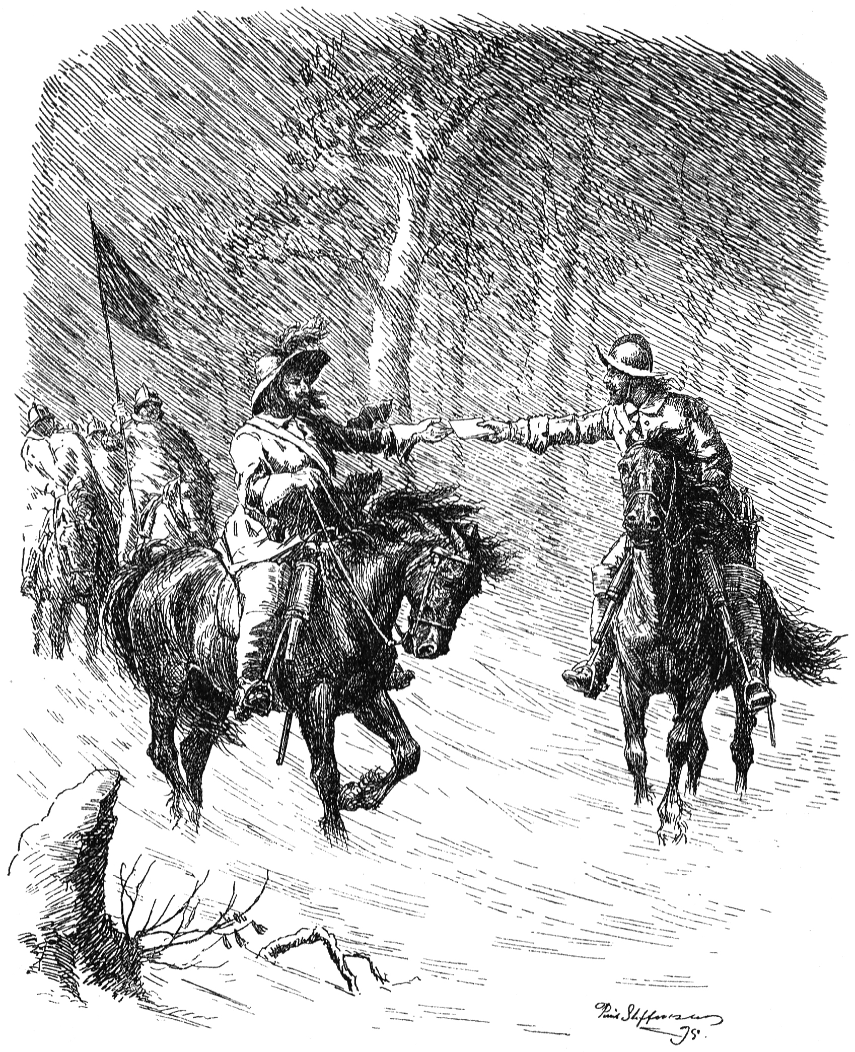 Svend Poulsen Gønge (right), also known as Gøngehøvdingen, luring the Swedish colonel Sparre into an ambush while disguised as a Swede. Published in Carit Etlars "Gjøngehøvdingen".